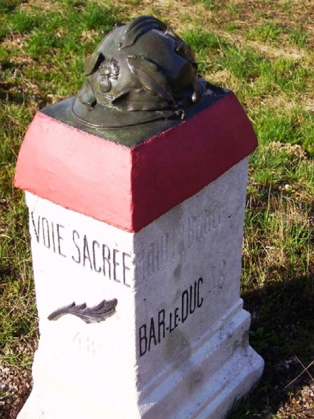 Borne